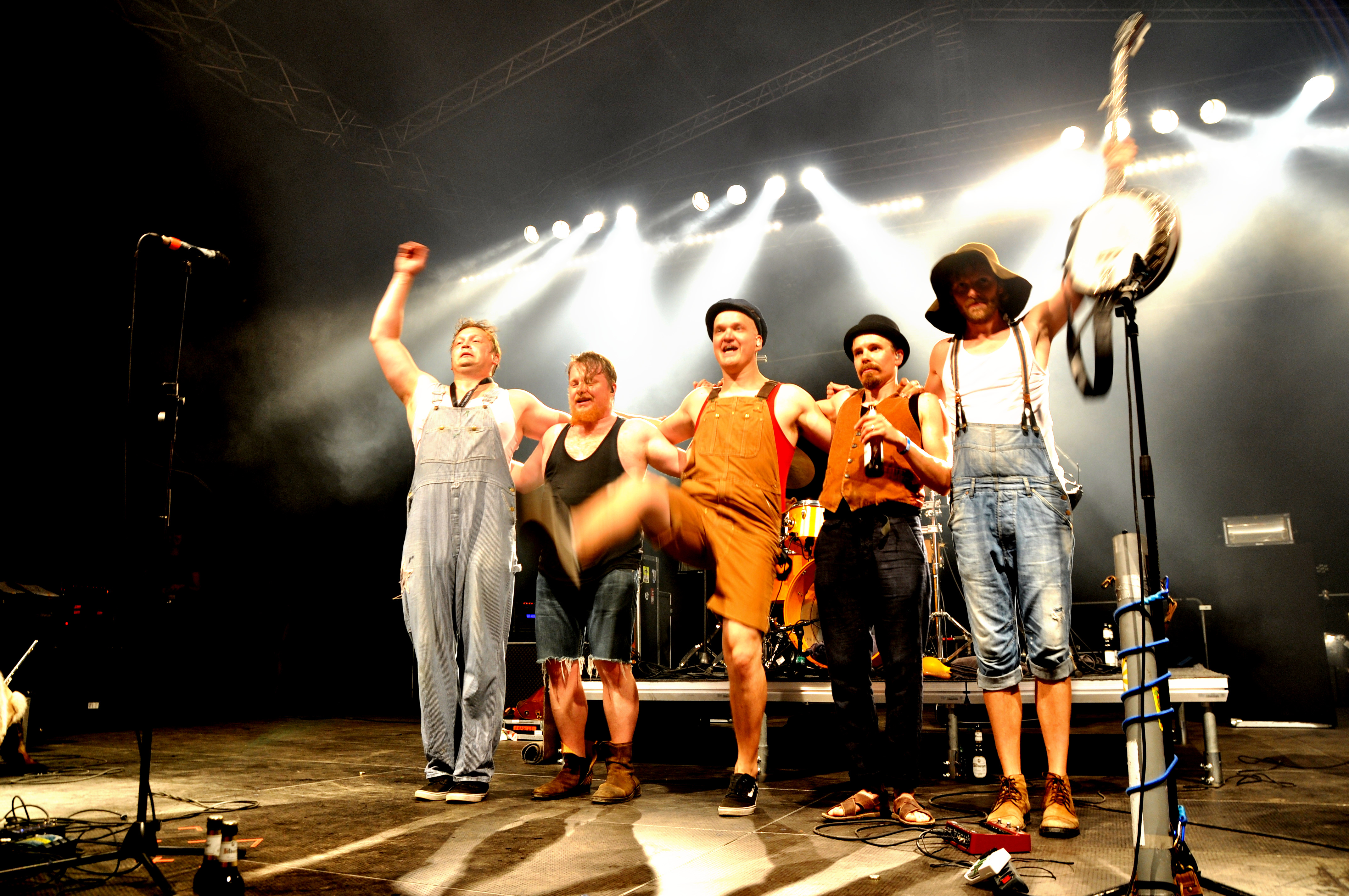 Steve'n'Seagulls (FIN) appearance at the 2017 blacksheep festival at Bonfeld castle, Bad Rappenau, Baden-Wuerttemberg, Germany Festivalsommer This photo was created with the support of donations to Wikimedia Deutschland in the context of the CPB project "Festival Summer".